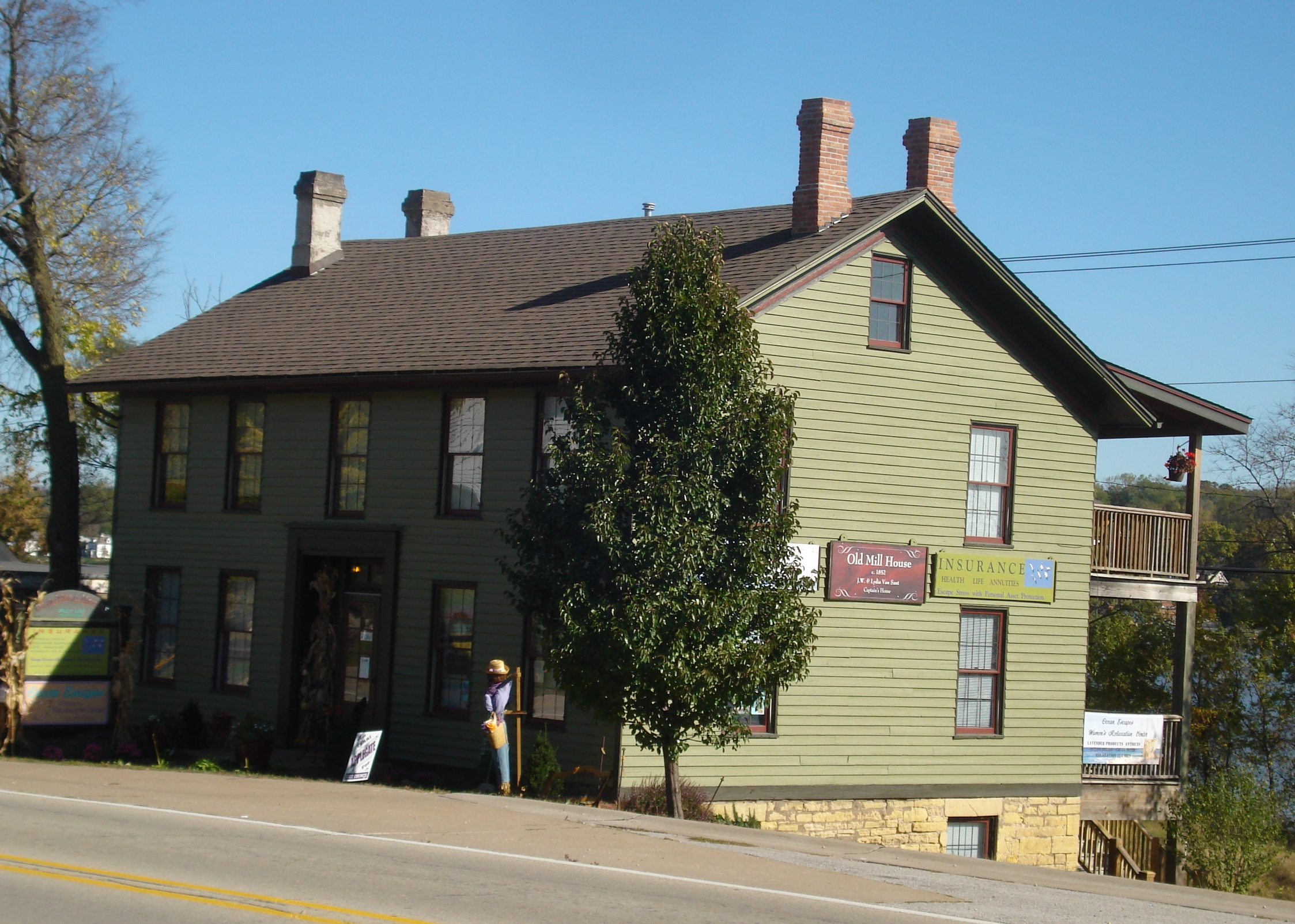 An 1851 Greek Revival style residence that is part of the Houses of Mississippi River Men Thematic Resource.